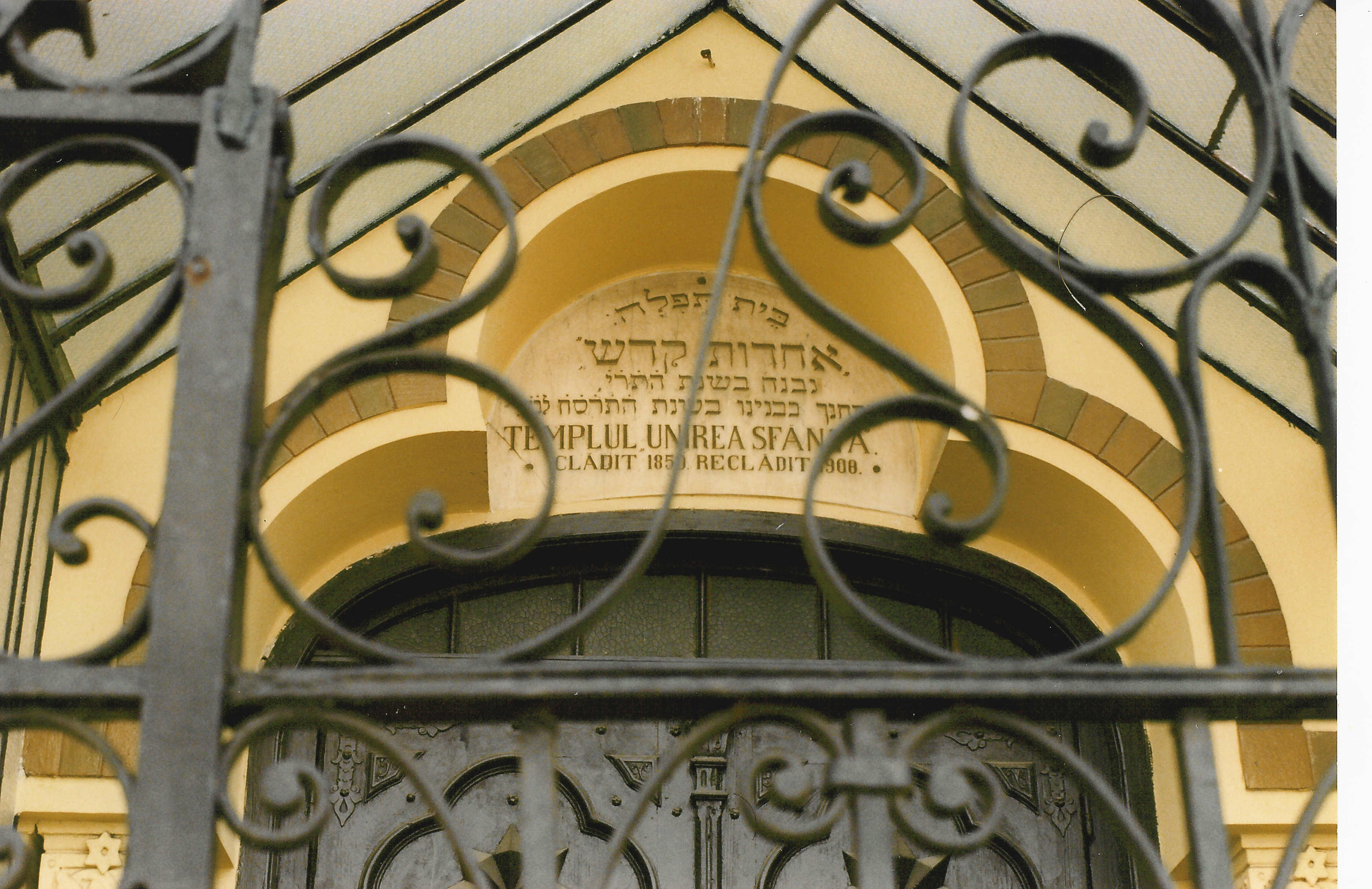 Entrance and inscription, Museum of History of the Jewish Community (or simply Jewish Museum, or other variants), Str. Mămulari Nr. 3, Bucharest, Romania; formerly Templul Unirea Sfântă (United Holy Temple).